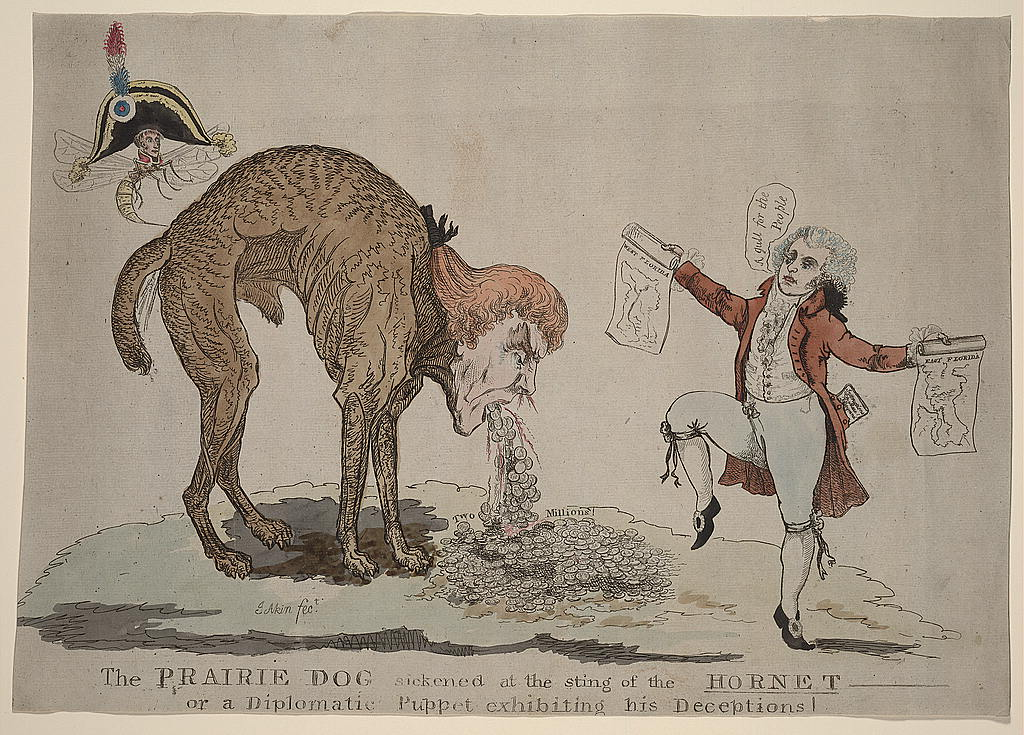 Title: The prairie dog sickened at the sting of the hornet or a diplomatic puppet exhibiting his deceptions / J[ames] Akin, fect. Creator(s): Akin, James, ca. 1773-1846, artist Date Created/Published: [Newburyport, Mass. : s.n.], 1804. Medium: 1 print on pale blue-grey laid paper : etching with watercolor ; 28.5 x 40.6 cm (sheet) Summary: James Akin's earliest-known signed cartoon, "The Prairie Dog" is an anti-Jefferson satire, relating to Jefferson's covert negotiations for the purchase of West Florida from Spain in 1804. Jefferson, as a scrawny dog, is stung by a hornet with Napoleon's head into coughing up "Two Millions" in gold coins, (the secret appropriation Jefferson sought from Congress for the purchase). On the right dances a man (possibly a French diplomat) with orders from French minister Talleyrand in his pocket and maps of East Florida and West Florida in his hand. He says, "A gull for the People." Notes: The print was probably published in Newburyport, Massachusetts, where Akin was working in 1804-6. Repository: Library of Congress Prints and Photographs Division Washington, D.C. 20540 USA